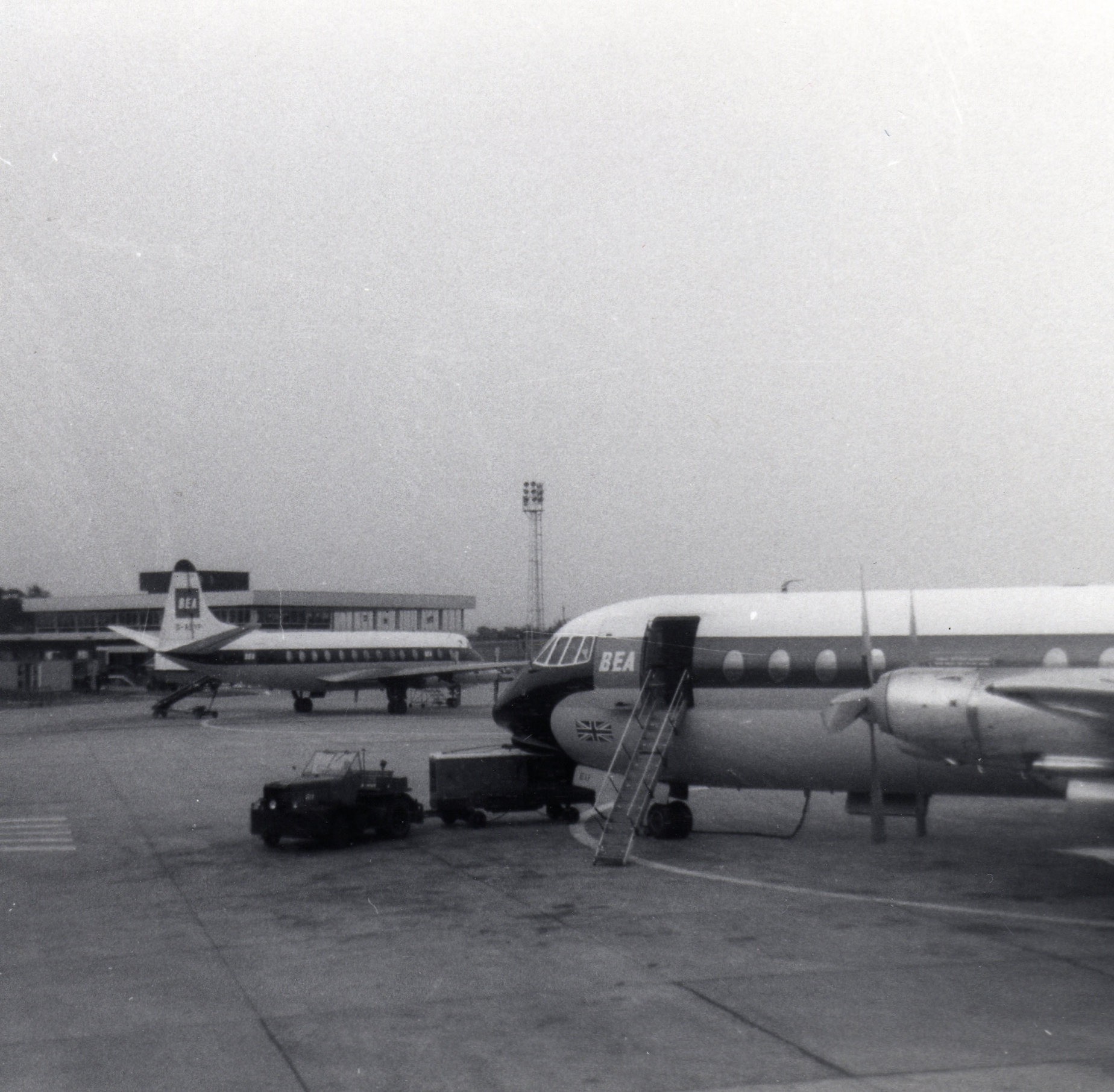 British European Airways Vickers Viscount and Vickers Vanguard aircraft, Belfast International Airport, Aldergrove, County Antrim, Northern Ireland (unknown date)